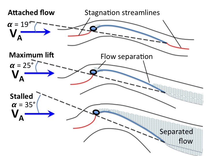 Hypothetical examples of sail angles of attack and resulting flow patterns for attache flow, maximum lift, and stalled. VA is the apparent wind vector. Stagnation streamlines delineate air that goes to the leeward side from that on the windward side of the sail. Source: Gentry, Arvel (1981-09-12), “A Review of Modern Sail Theory”, in Proceedings of the Eleventh AIAA Symposium on the Aero/Hydronautics of Sailing[1]